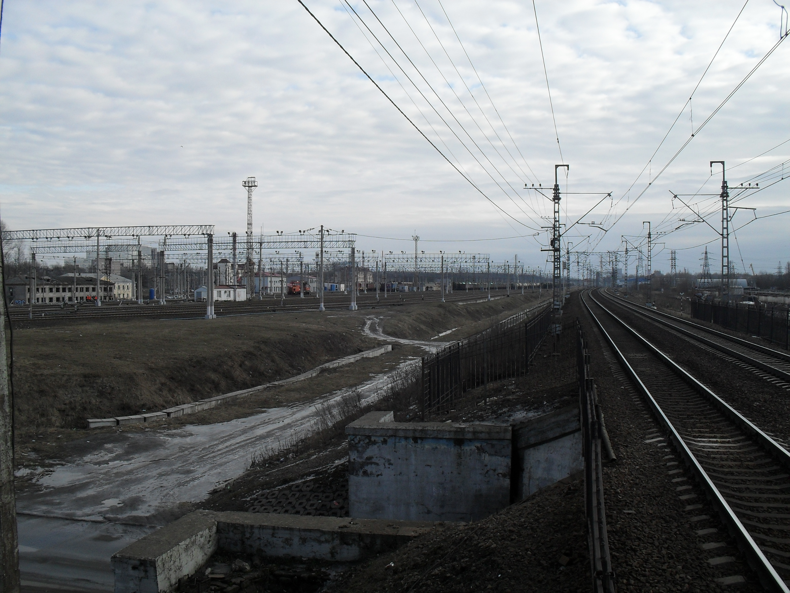 Sortirovka Piter